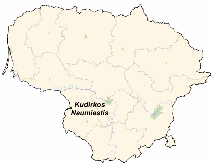 Kudirkos Naumiestis on the map of Lithuania